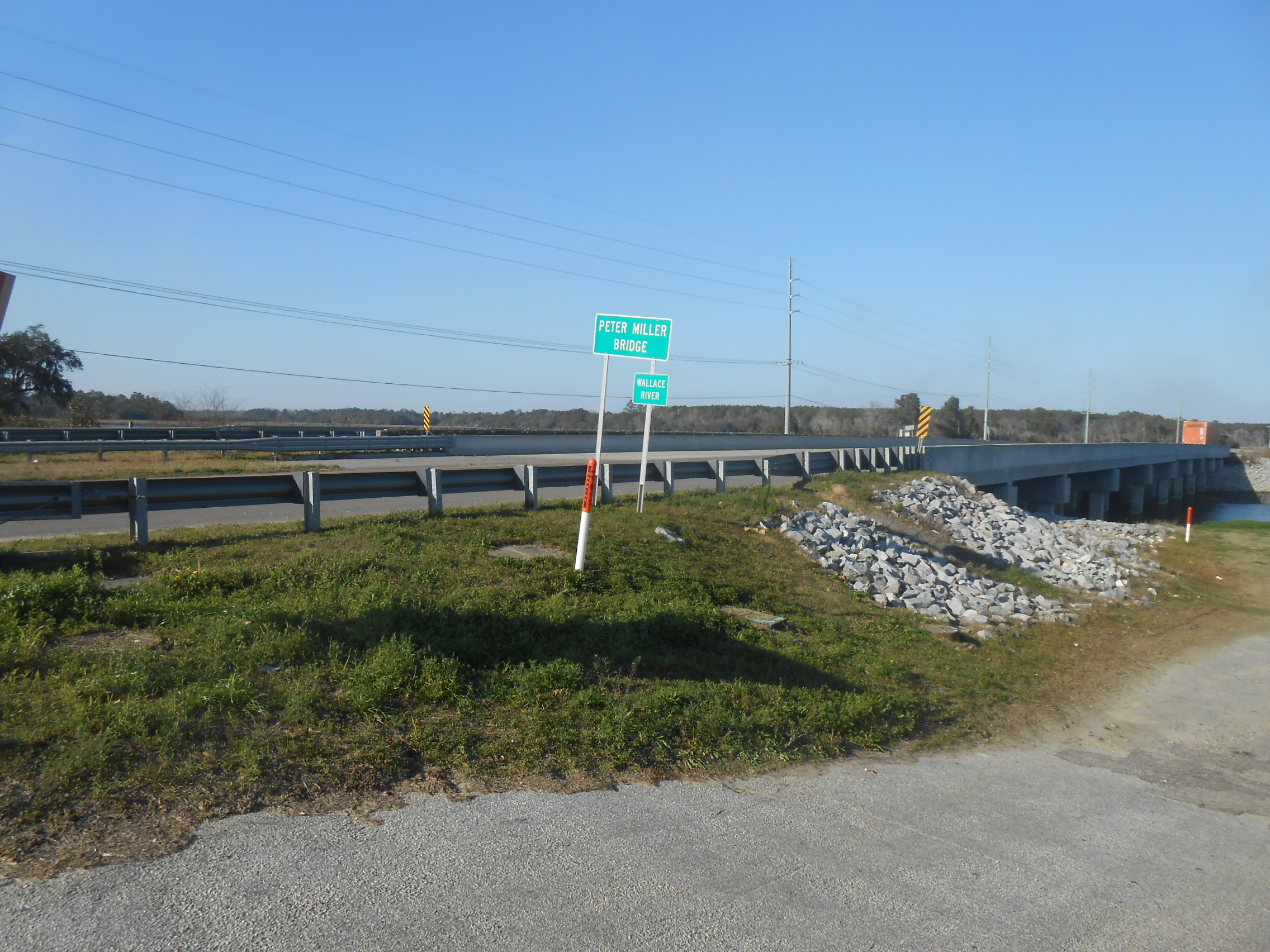 Stono Rebellion location on Highway 17